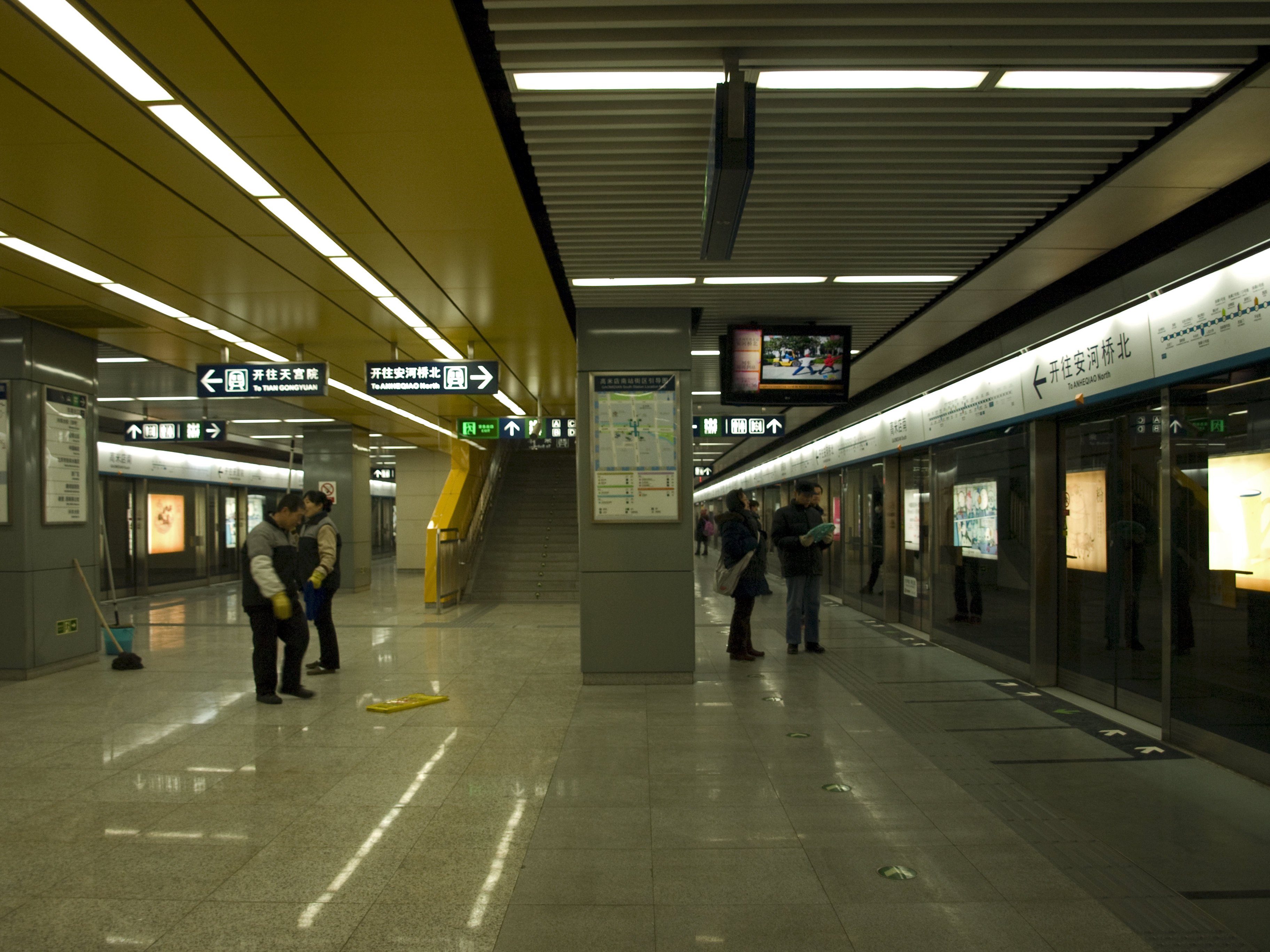 Gaomidian South station, Beijing Subway